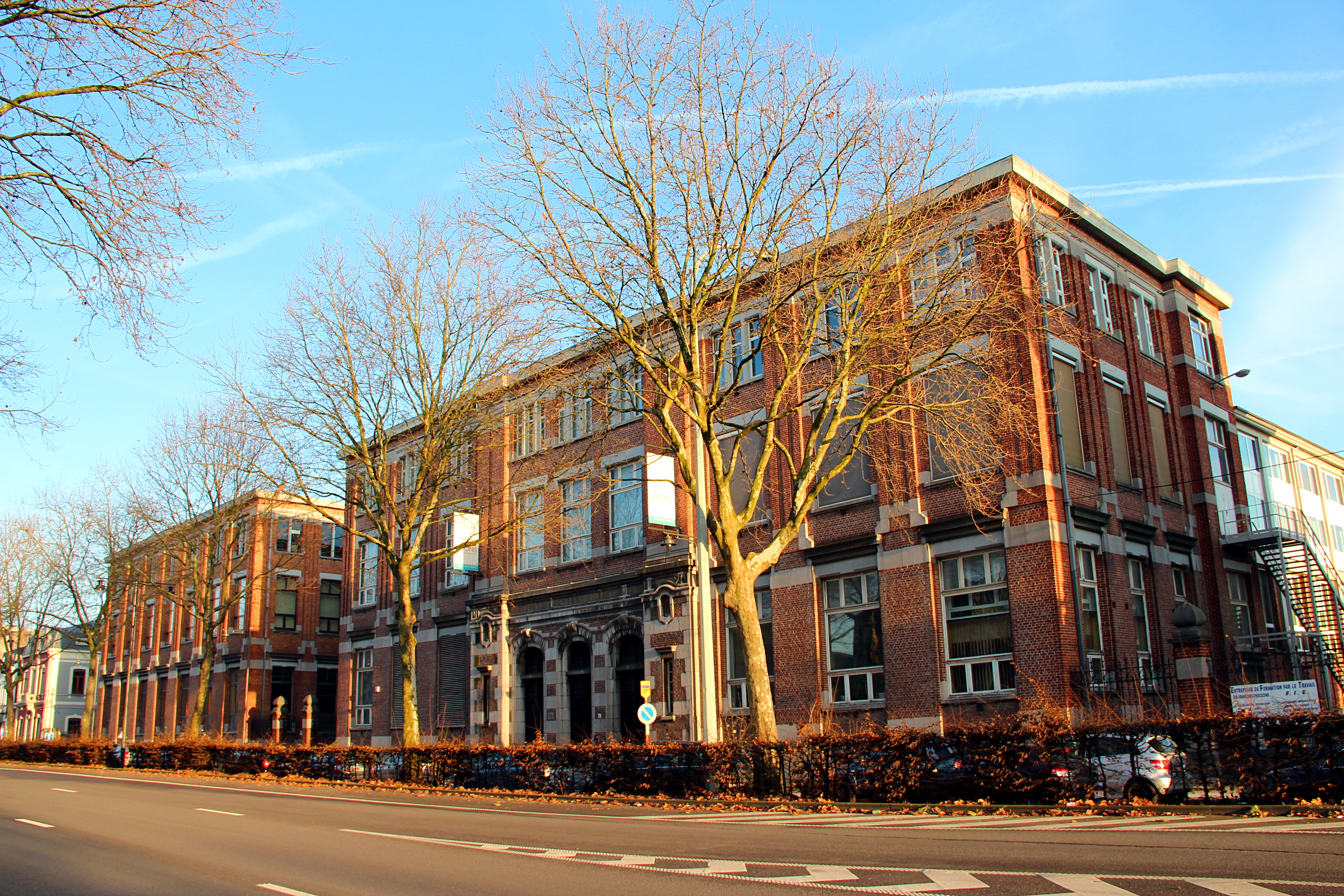 Mons (Belgium), boulevard Dollez - Faculté polytechnique de Mons.